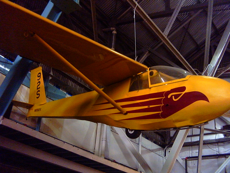 Reconstructed from two airframes. Tail number assigned of majority of airaframe. Restoration performed by team of volunteers at the Wings Over the Rockies Air and Space Museum, Denver, CO. Photo taken by Lance Barber, volunteer. Request standard "Courtesy of" line for outside Wikipedia. Thank you.